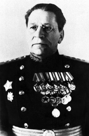 Army General Maxim Purkayev, late 1940s